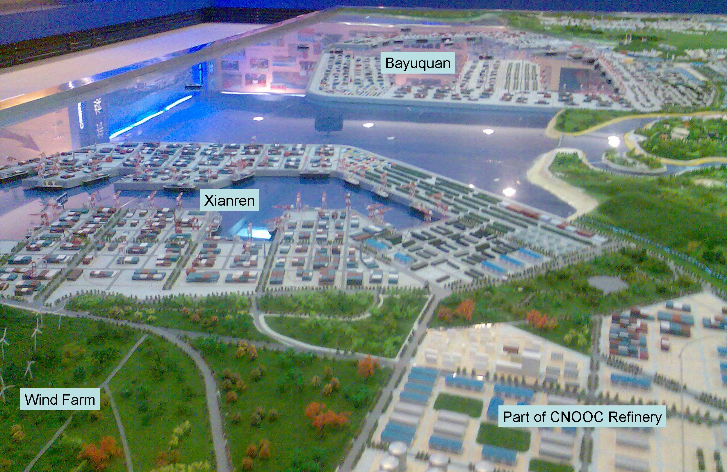 Model of development at Xianren, Yingkou